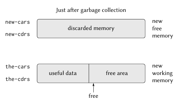 See File:Structure and Interpretation of Computer Programs p.764a.gif for details. This diagram illustrates the situation right after (stop-and-copy) garbage collection.